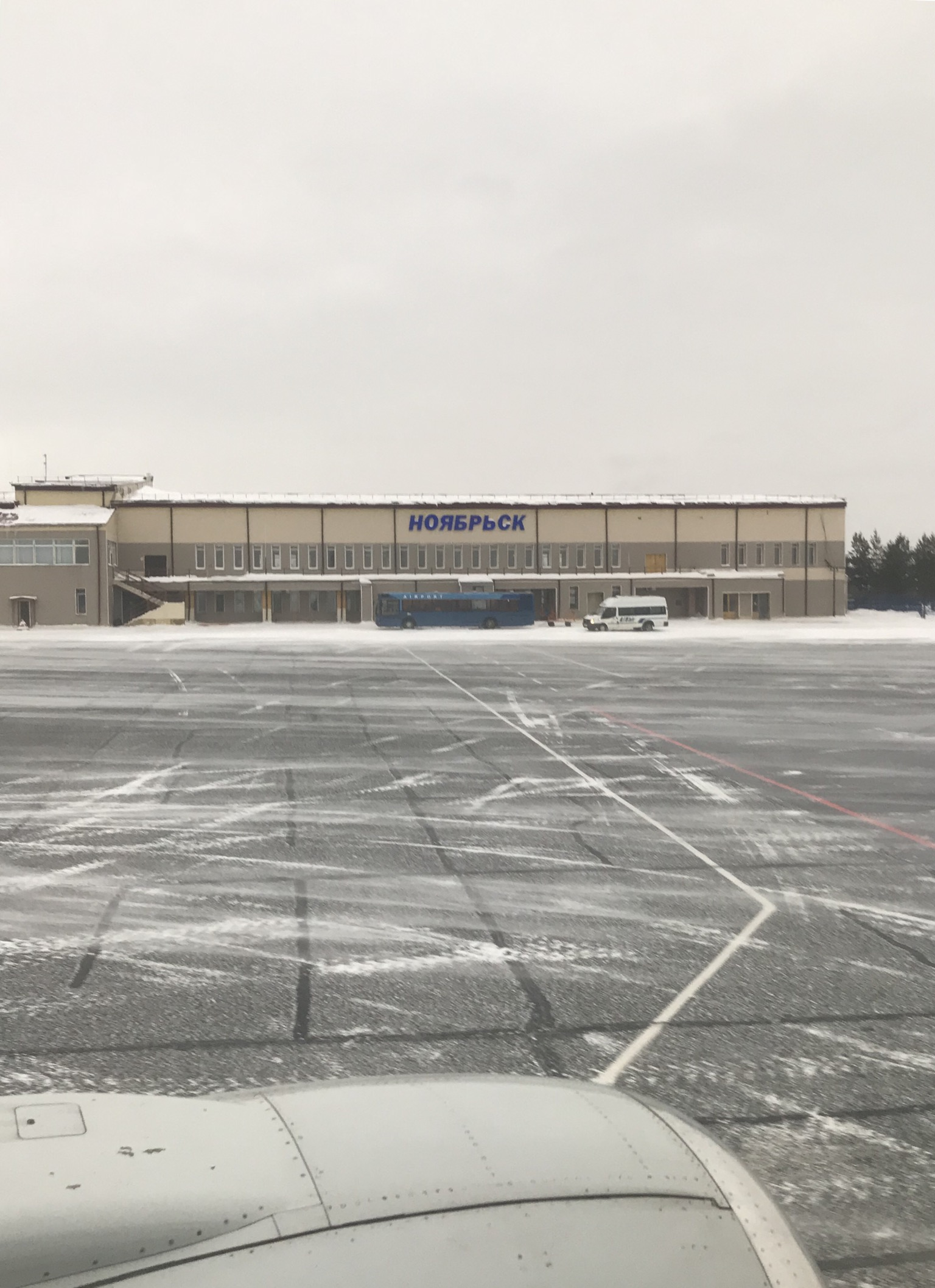 View of the Noyabrsk Airport terminal in the city of Noyabrsk in Yamal-Nenets Autonomous Okrug, Russia.